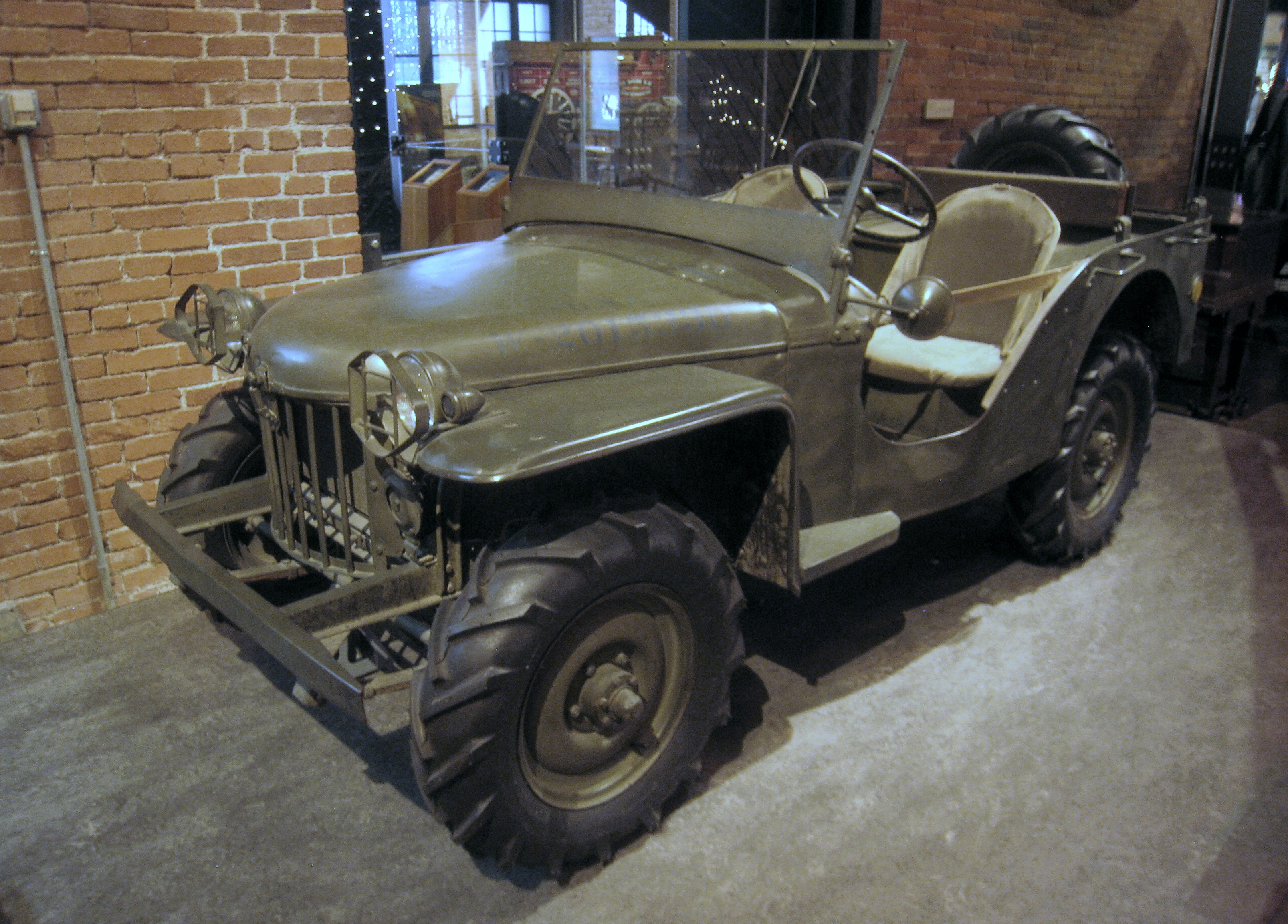 Bantam Reconaissance Car #1007 (BRC 60), nicknamed "Gramps", made by American Bantam Car Company, 1940. Exhibit in the Senator John Heinz History Center, 1212 Smallman Street, Pittsburgh, Pennsylvania, USA. There were no restrictions on photography in the museum collections.